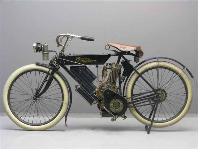 Reading Standard Model A 400 cc motorcycle from 1908